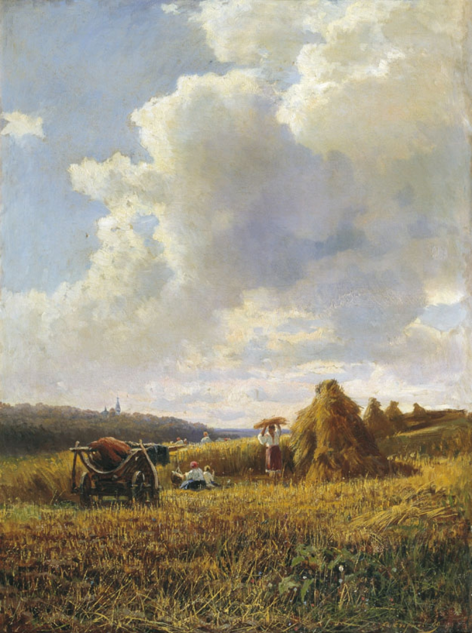 Painter Alexander Semenovich Egornov.